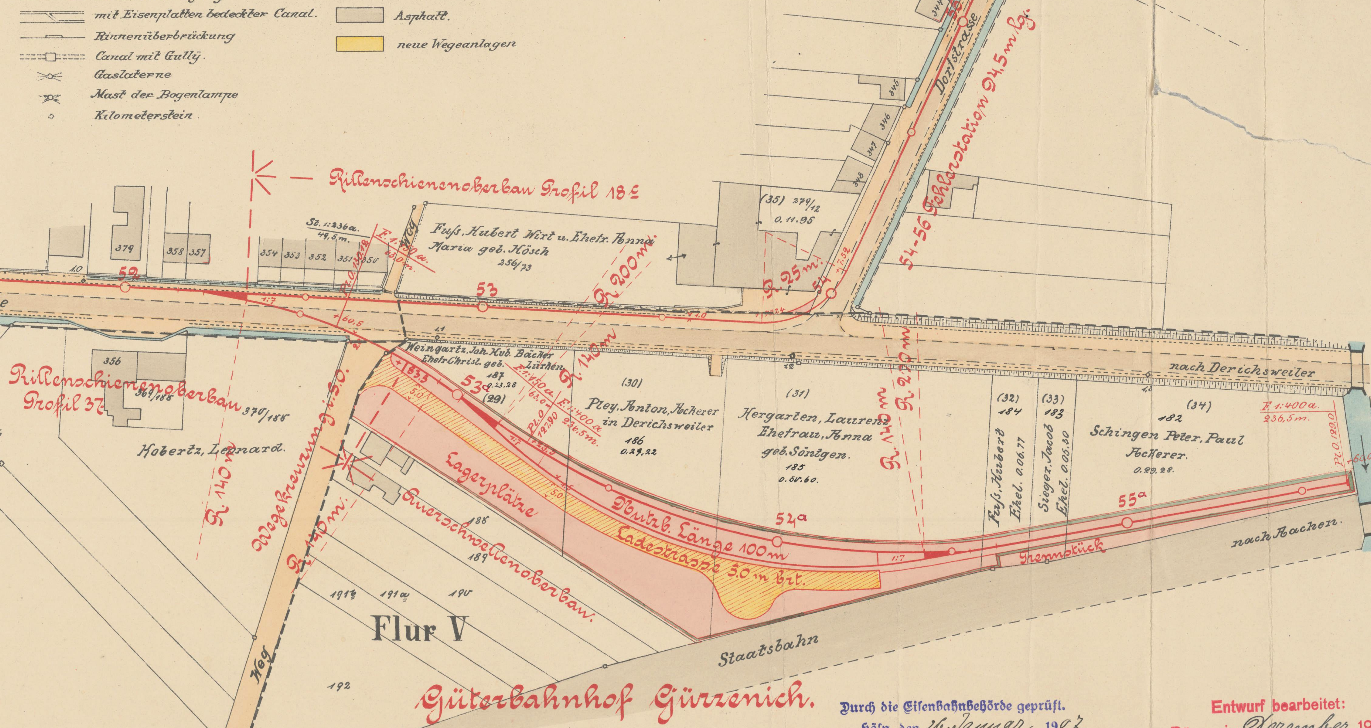 Plan of Gürzenich freight station of Dürener Kreisbahn